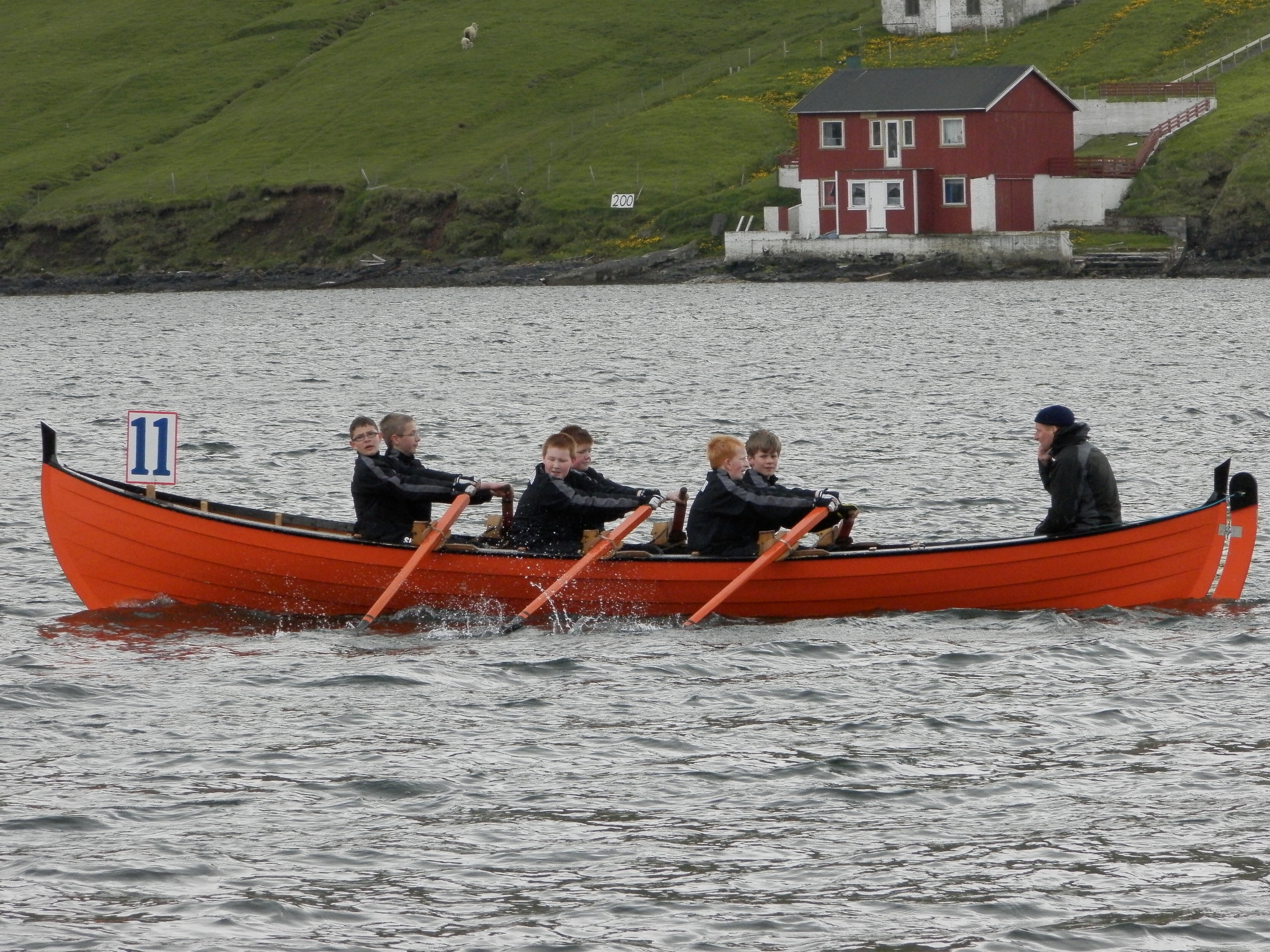 Kollur is a Faroese wooden rowing boat from the village Kollafjørður. It belongs to KÍF (Kollafjarðar Ítróttarfelag, róðrardeild), which is the rowing club/sports club of Kollafjørður. This photo was taken in Vágur, Faroe Islands, just after the children's boat race (boys). The boat is orange with black on the top of the boat. Føroyskt: Kollur er ein føroyskur kapprórarbátur hjá KÍF, róðrardeild úr Kollafirði. Báturin var mannaður til barnaróðurin hjá dreingjum í 2012. Henda myndin er tikin beint eftir barnaróðurin hjá dreingjunum á Jóansøku 2012 í Vági.